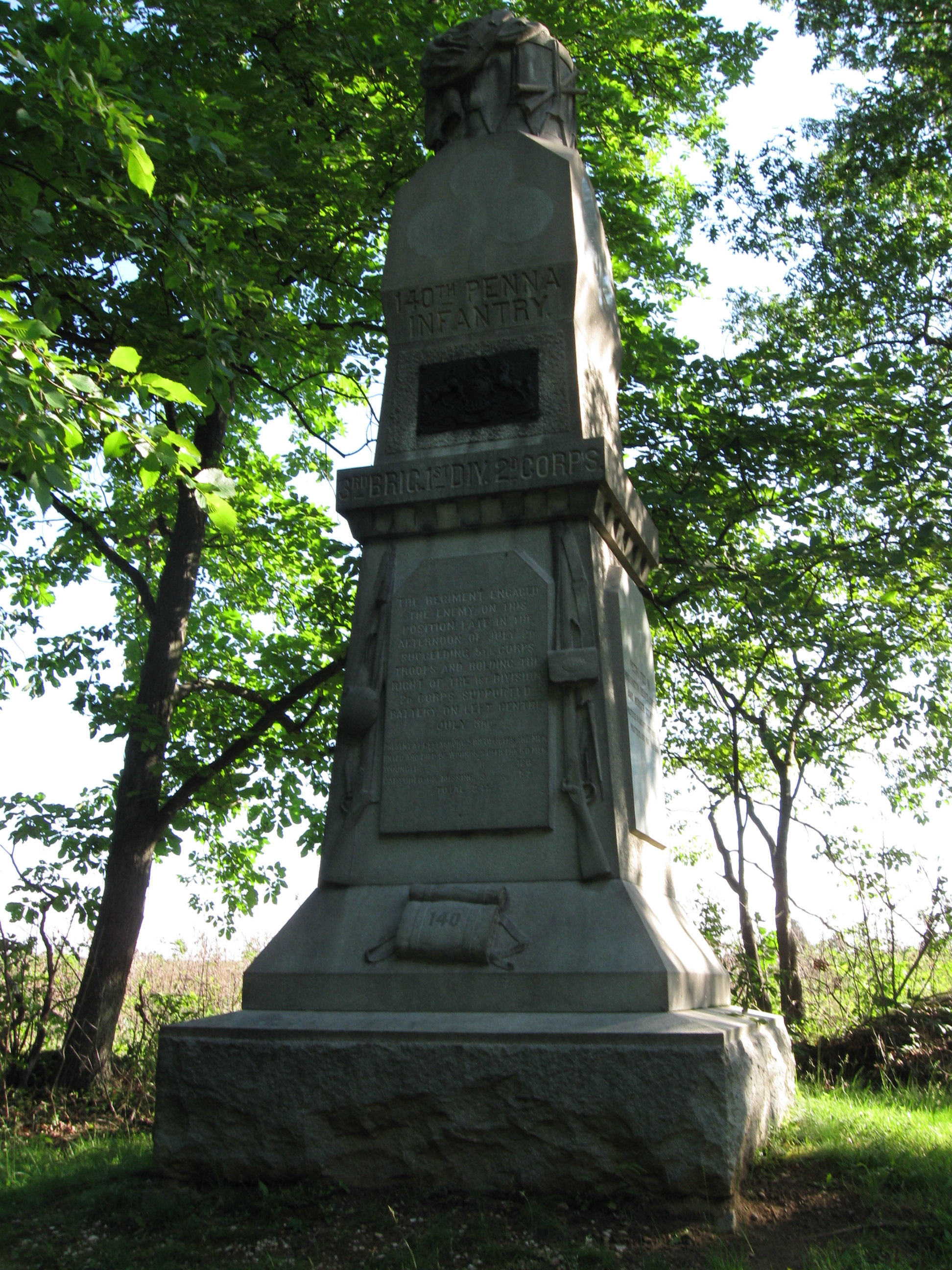 140th Pennsylvania Volunteer Infantry Monument (1889), Sickles Avenue, Gettysburg Battlefield. Photo by M. Stewart, 6/4/12.